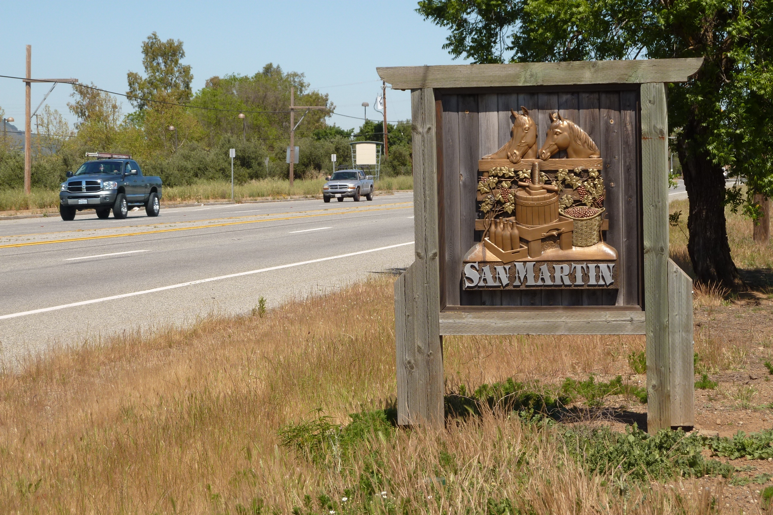 Welcome sign on northbound side of Monterey Road, entering the community of San Martin, California, United States.